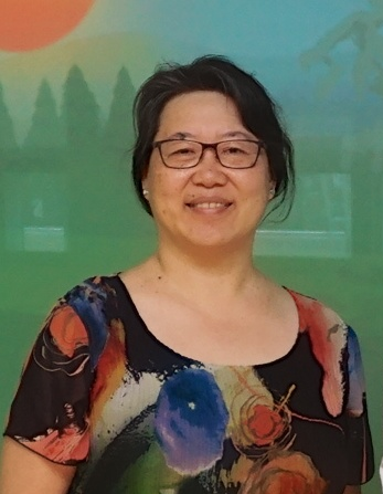 Dr. Vivian Lin is the Director of Health Sector Development at the World Health Organization Western Pacific Region